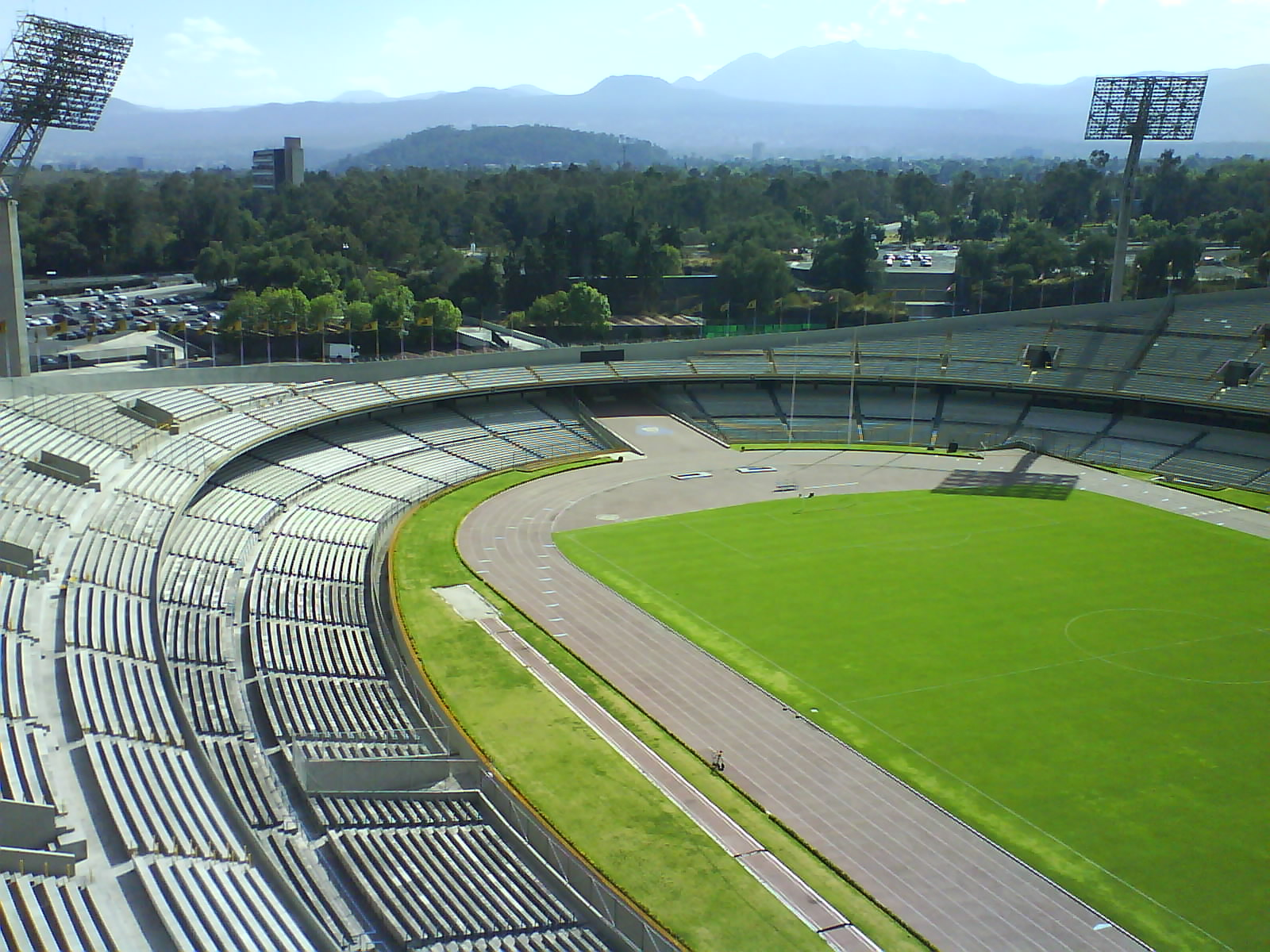 Top view from the one of the illumination tower at Estadio Olímpico Universitario in Ciudad Universitaria, México City